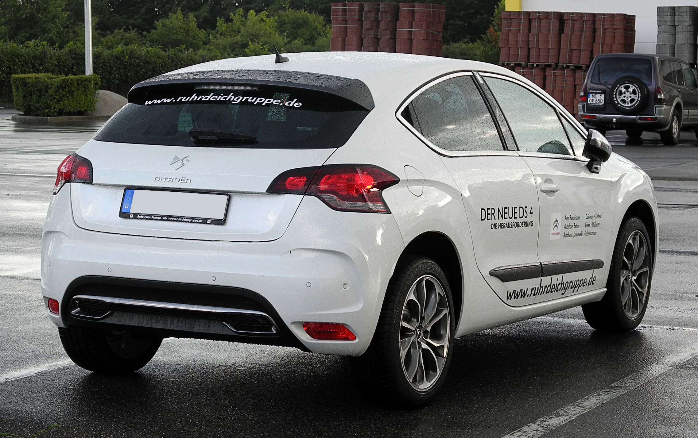 Citroën DS4 HDi 165 SportChic